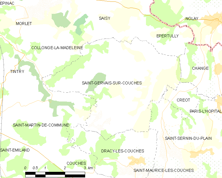 Map of French municipality